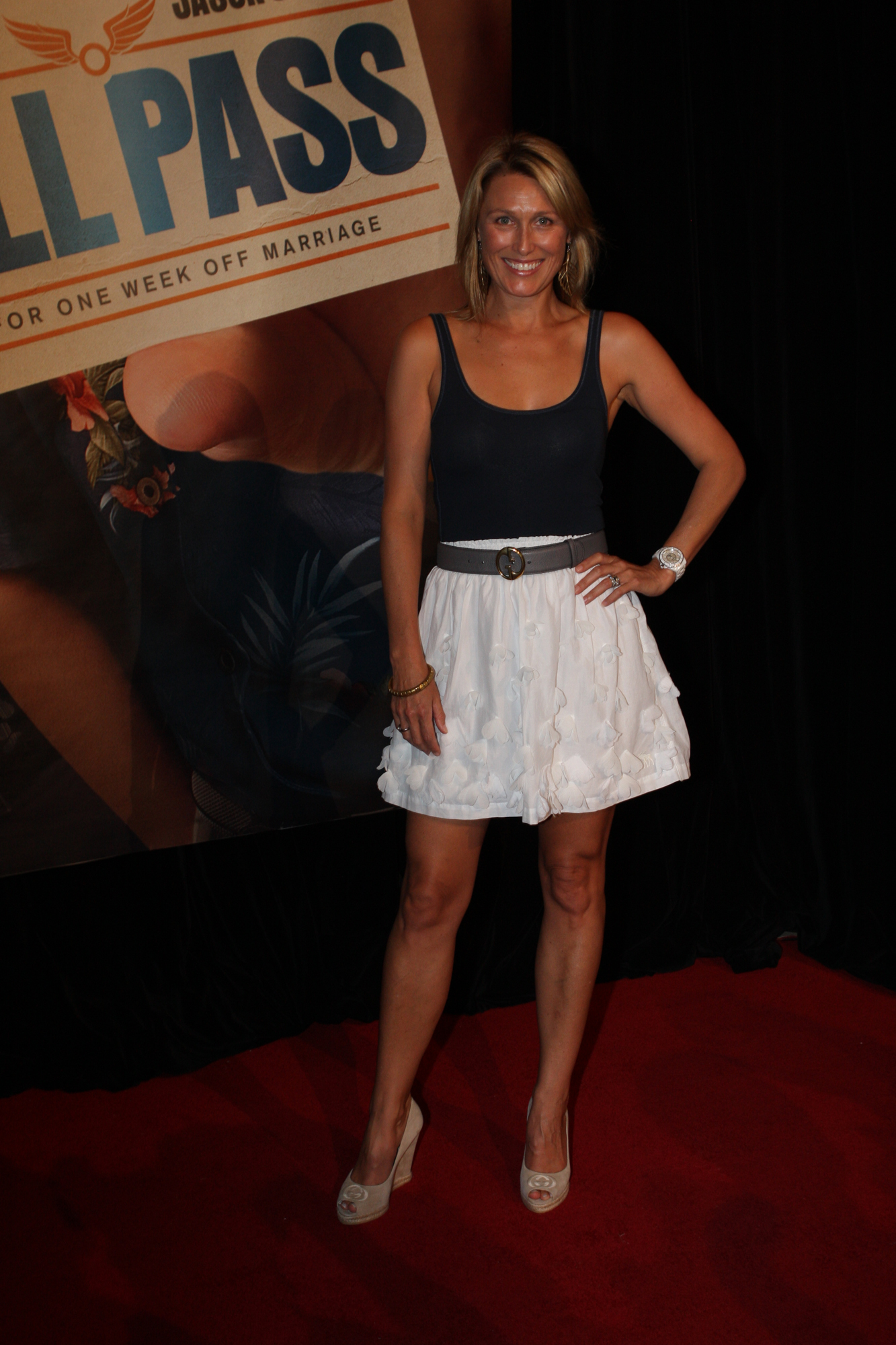 Hall Pass Red Carpet Sydney